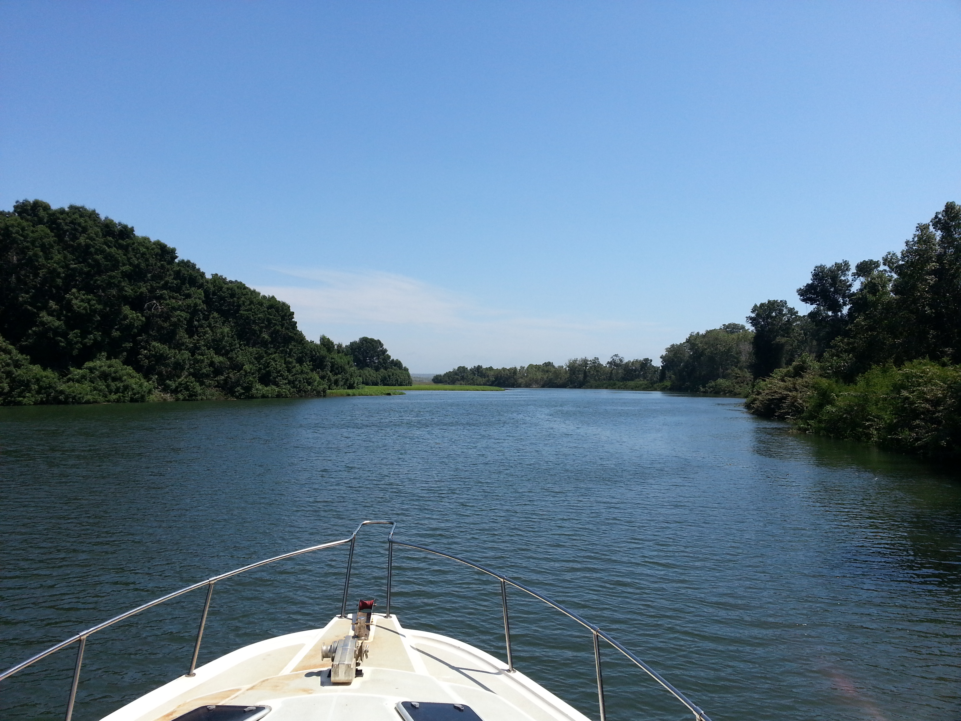 View from the Kwanza River